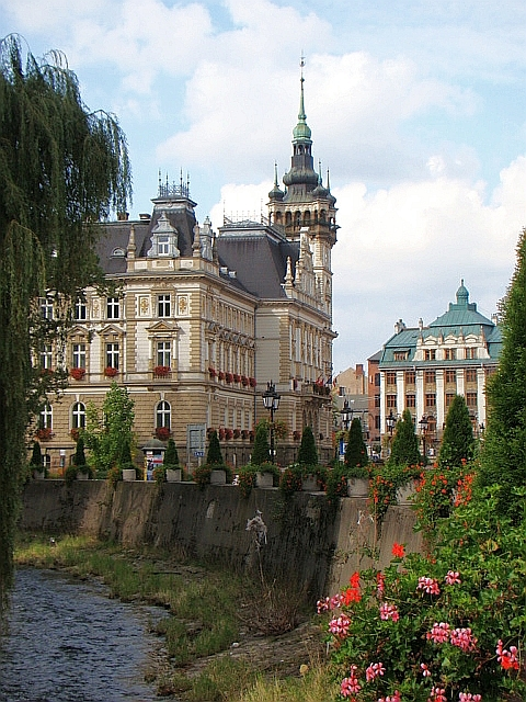 Bielsko